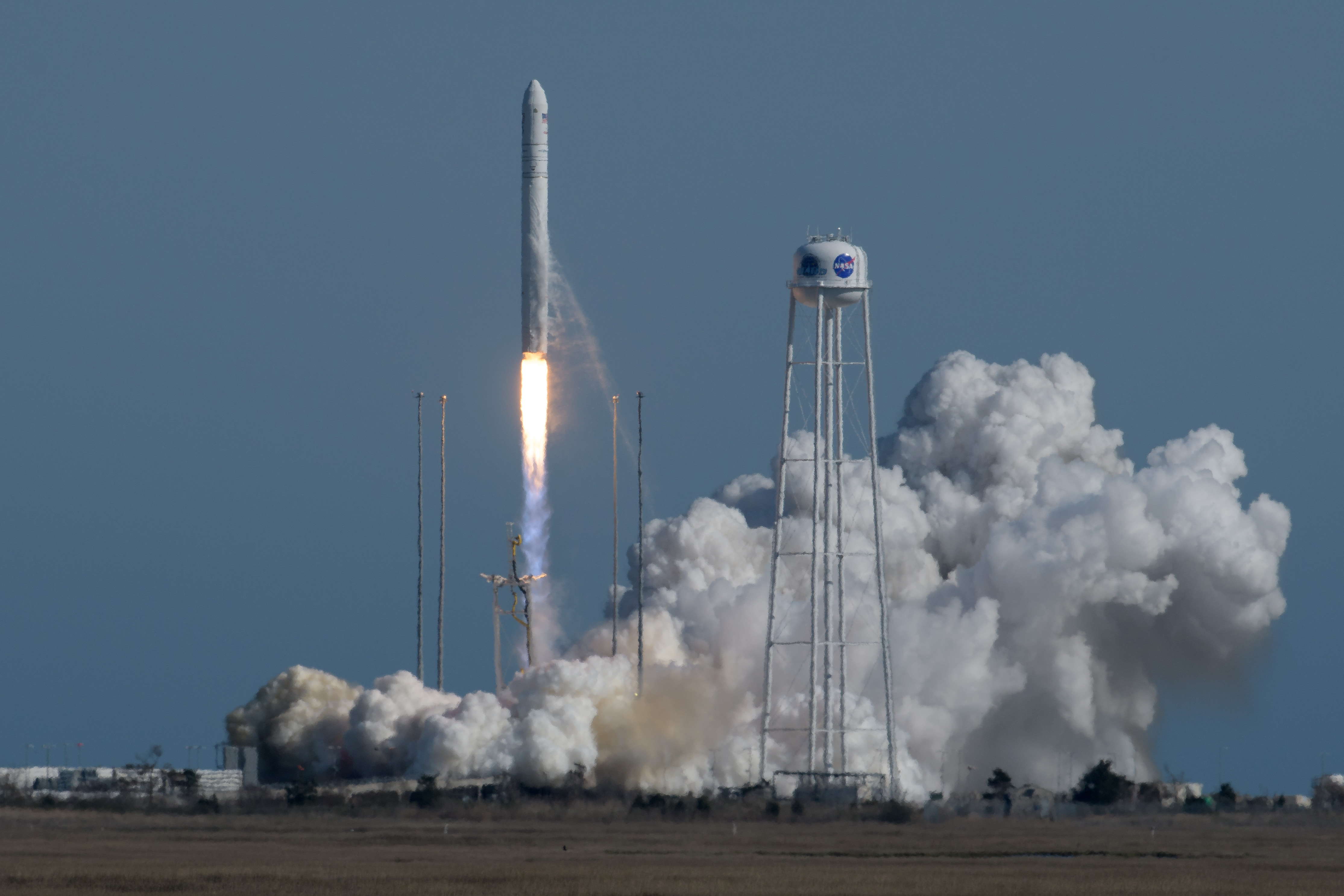 The Northrop Grumman Antares rocket, with Cygnus resupply spacecraft onboard, launches from Pad-0A, Wednesday, April 17, 2019 at NASA's Wallops Flight Facility in Virginia. Northrop Grumman's 11th contracted cargo resupply mission for NASA to the International Space Station will deliver about 7,600 pounds of science and research, crew supplies and vehicle hardware to the orbital laboratory and its crew. Photo Credit: (NASA/Bill Ingalls)